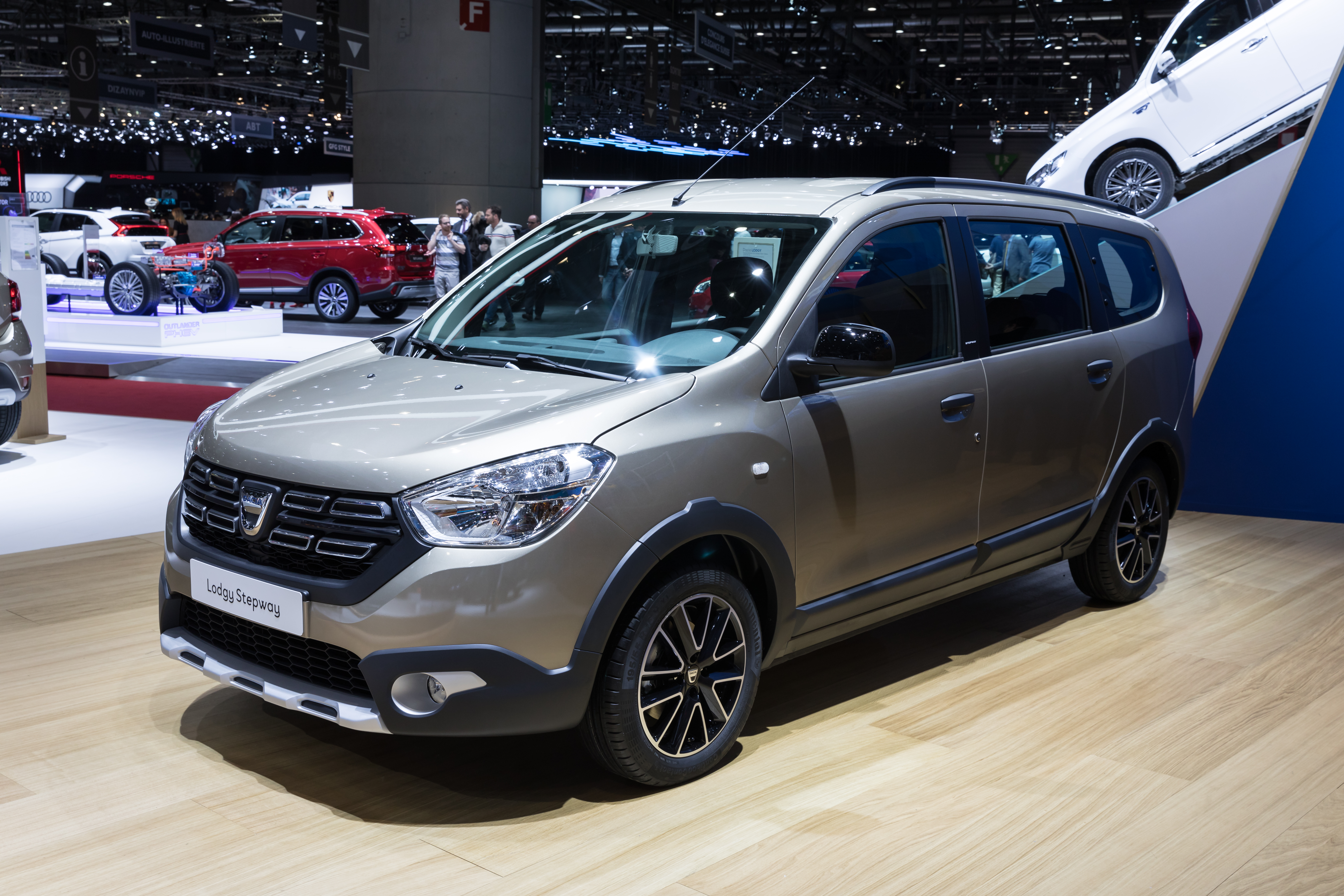 Geneva International Motor Show 2018